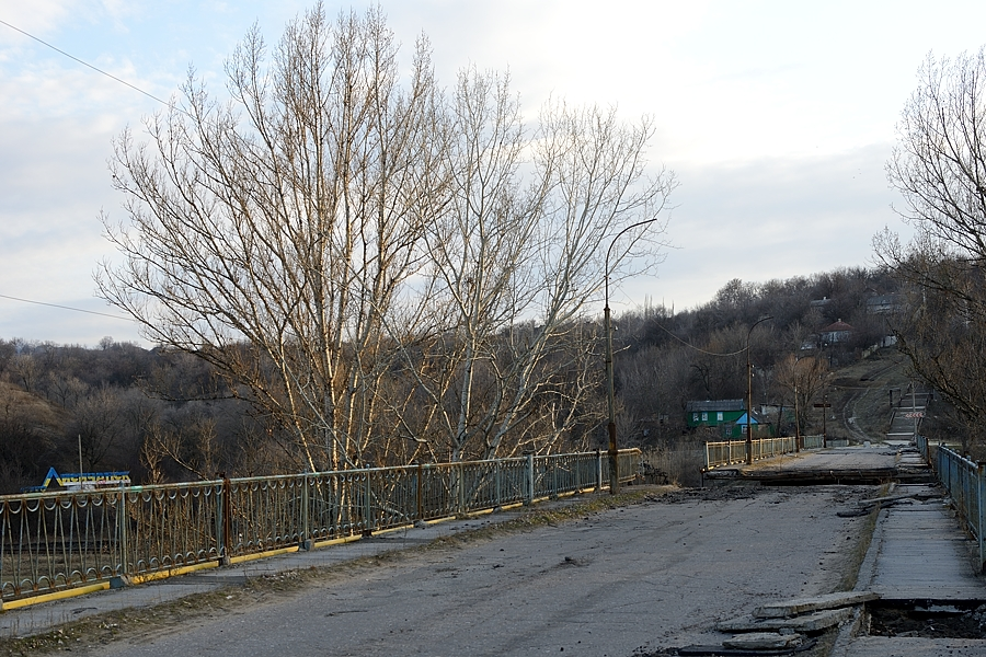 Destroyed Siverskyi Donets bridge between Lysychansk and Sievierodonetsk